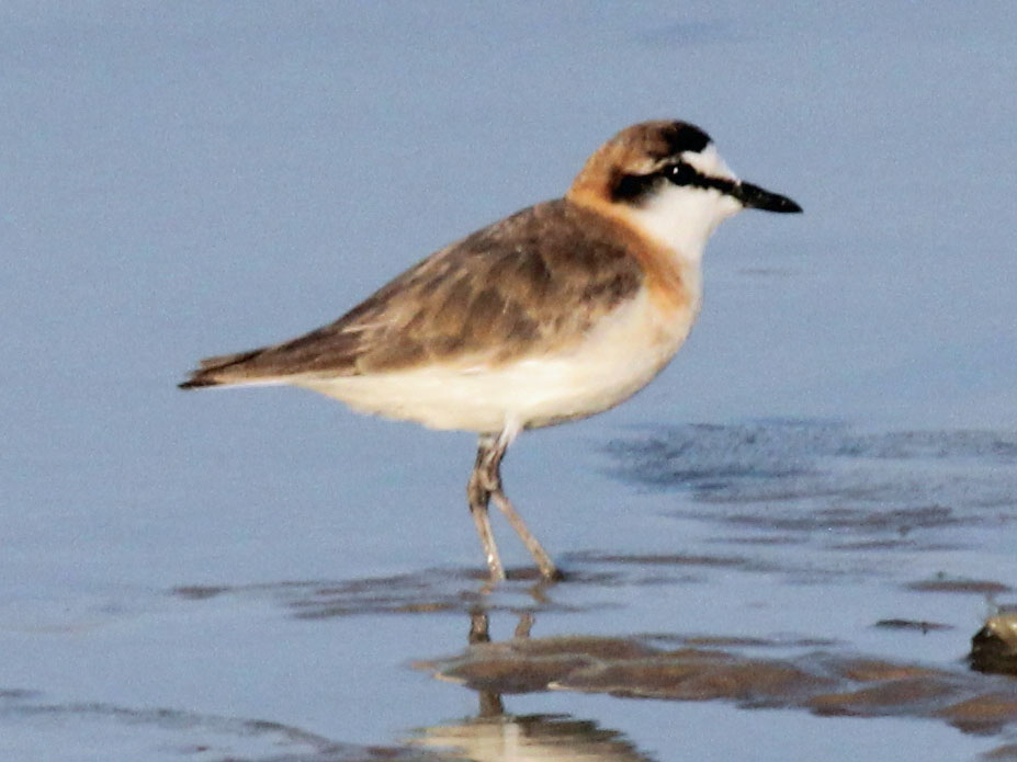 White-fronted Plover (Charadrius marginatus) - Morondava, Madagascar